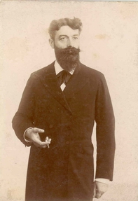 "Ernest Lacombe, architecte"